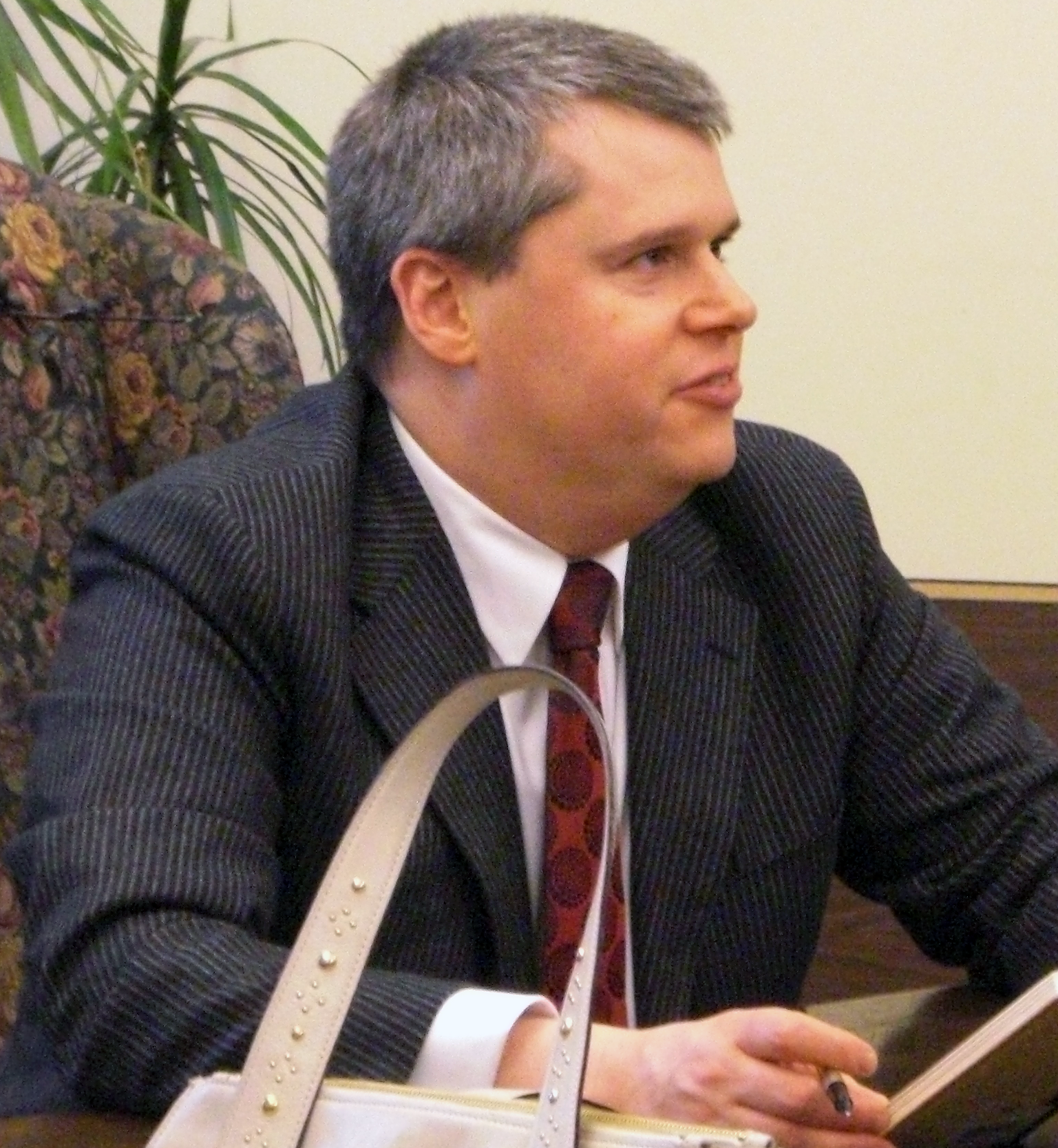 Daniel Handler doing a book signing at Book People